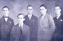 Los Leopardos members from left to right: Silvio Villegas, Joaquín Fidalgo, Eliseo Arango, José Camacho Carreño, Augusto Ramírez Moreno.